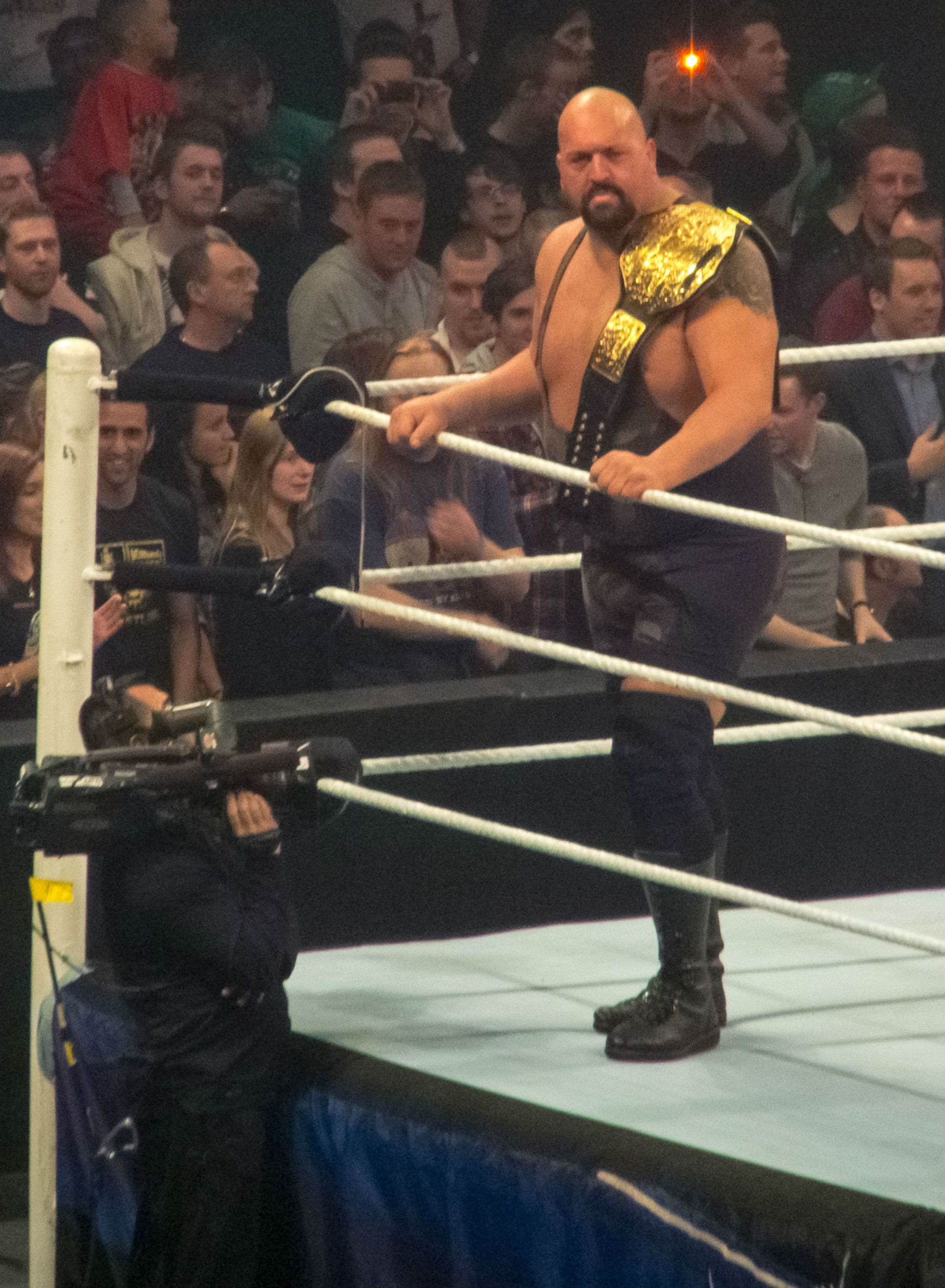 Wade Barrett & Big Show vs. Sheamus & William Regal